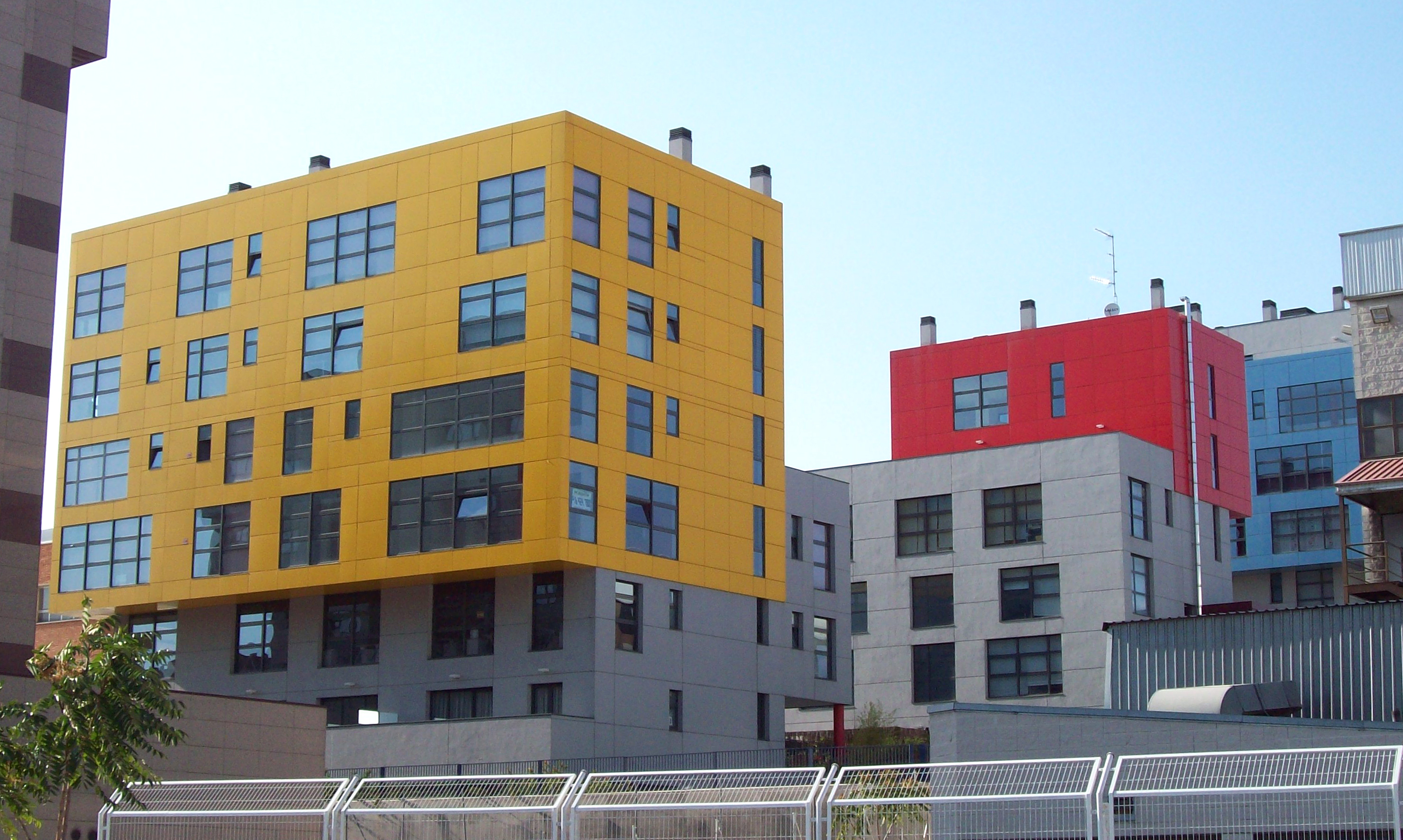 Loft buildings Baluarte Las Tablas in Madrid (Spain).